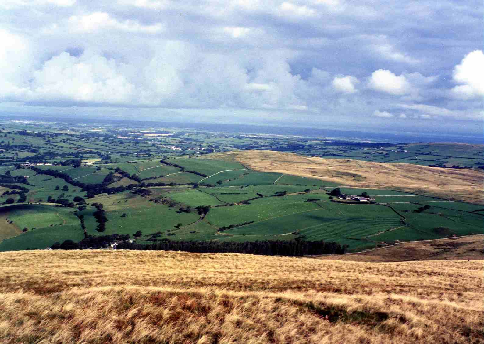 Looking north from Longlands Fell across the Solway plain. Personal picture taken by Mick Knapton